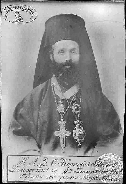 Metropolitan Photios (Kalpidis) of Korytsa and Premeti (1862-1906). He was born in 1862 in Kerasounta, and was murdered on September 9th, 1906.